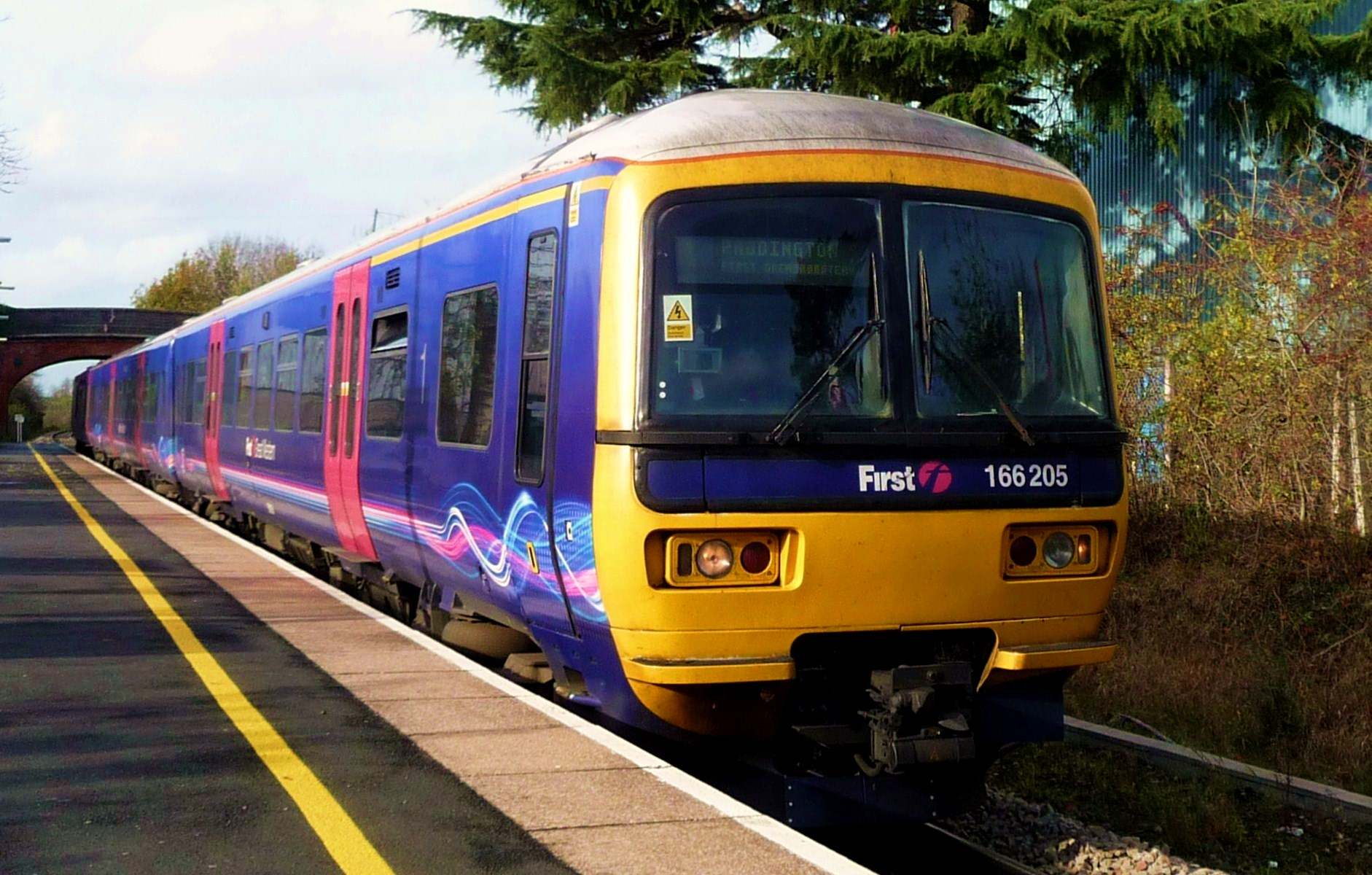 A First Great Western Class 166 Bound For London Paddington Calls At Pershore